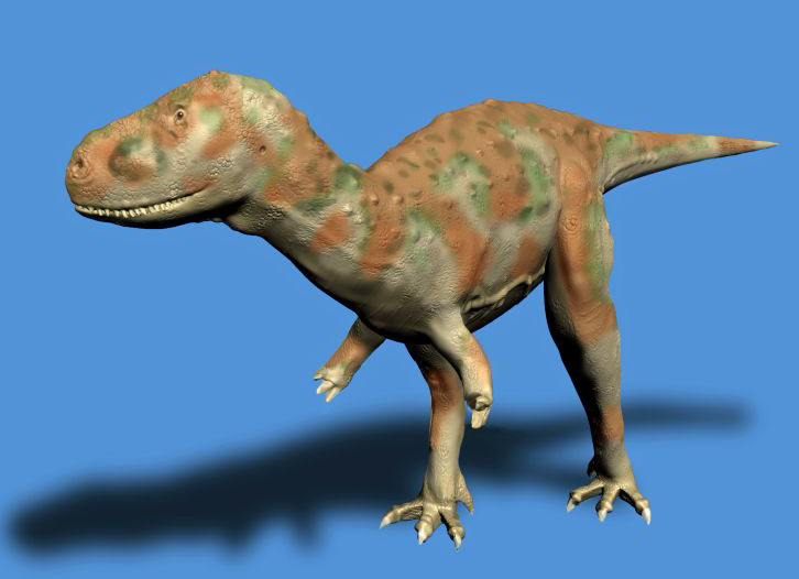 Skorpiovenator bustingorryi, an abelisaur from the Late cretaceous of Argentina, digital.